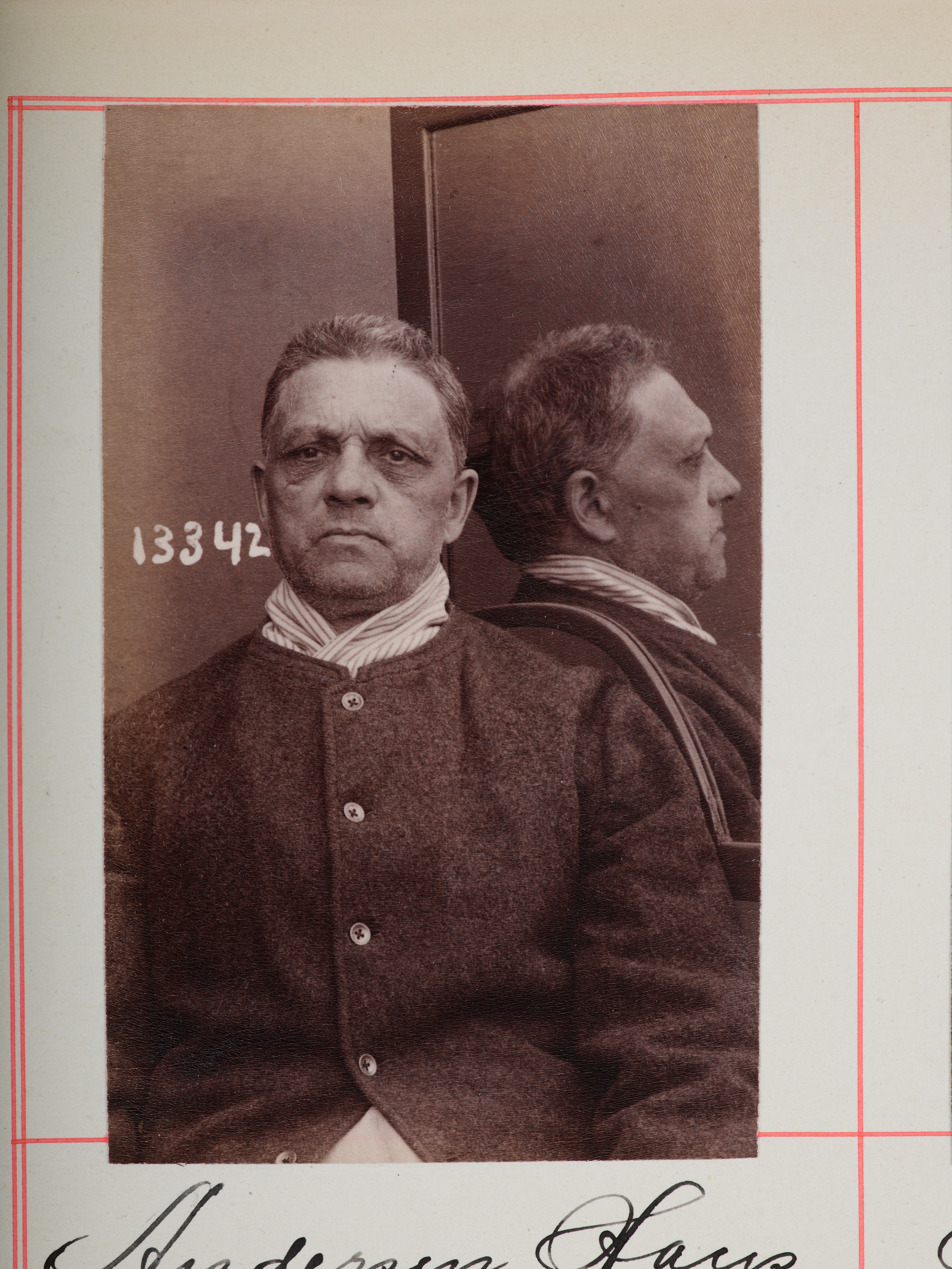 Mug shot (photographic portrait) of criminal taken by the police in Oslo, Norway 1913–1915